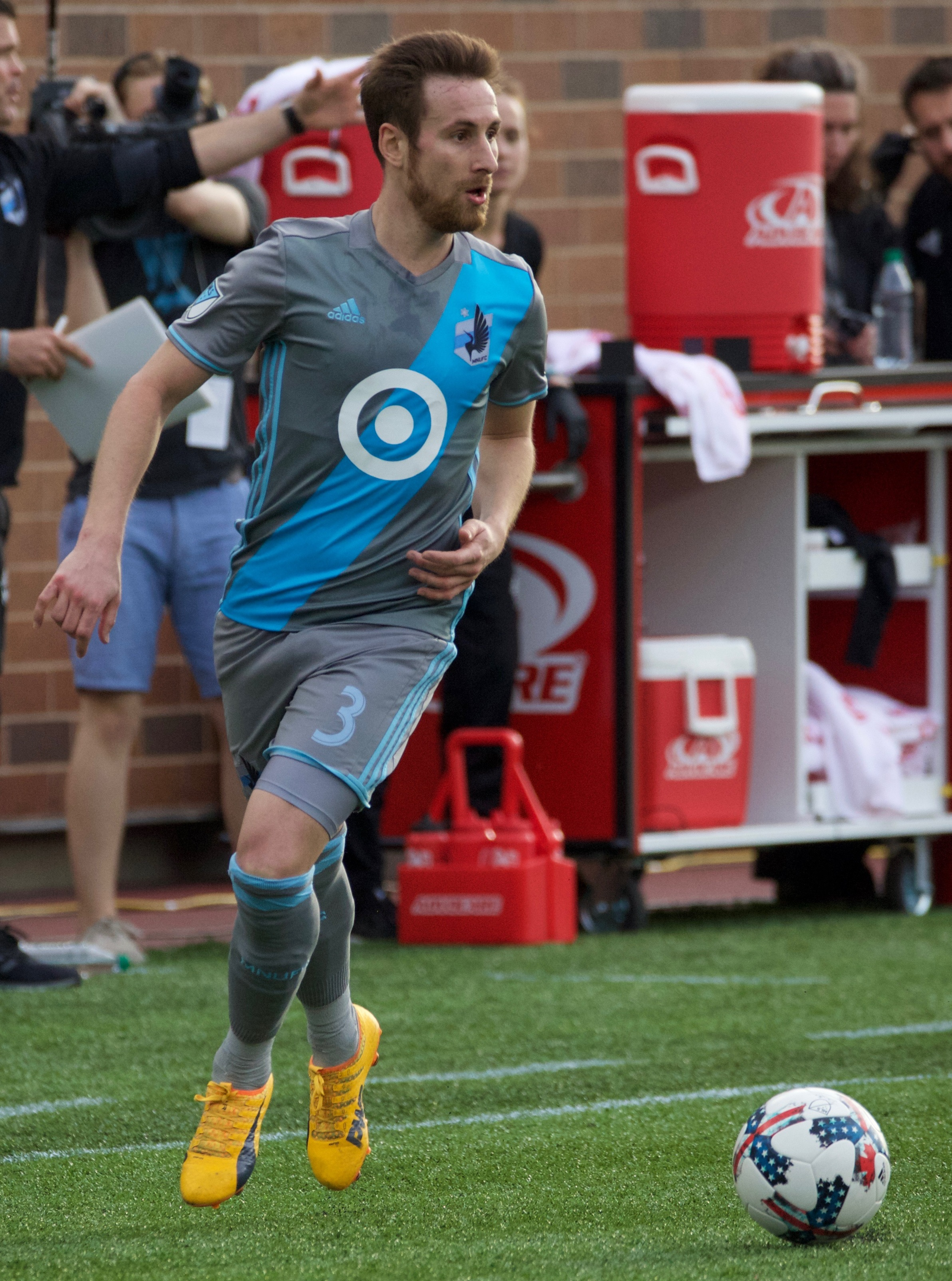 Thiessen - MNUFC - MLS - Soccer